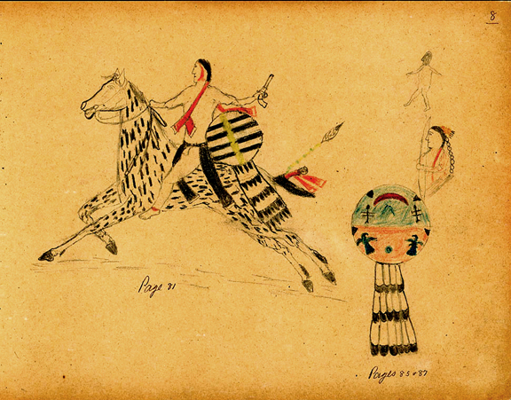 Photo of ledger drawing by Carl Sweezy (1881-1953), Arapaho artist from Indian Territory/Oklahoma.